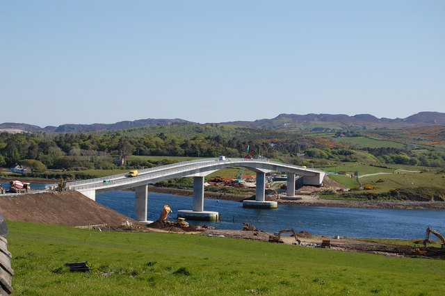 Harry Blaney Bridge Linking Fanad and Carrigart, and opened in May 2009